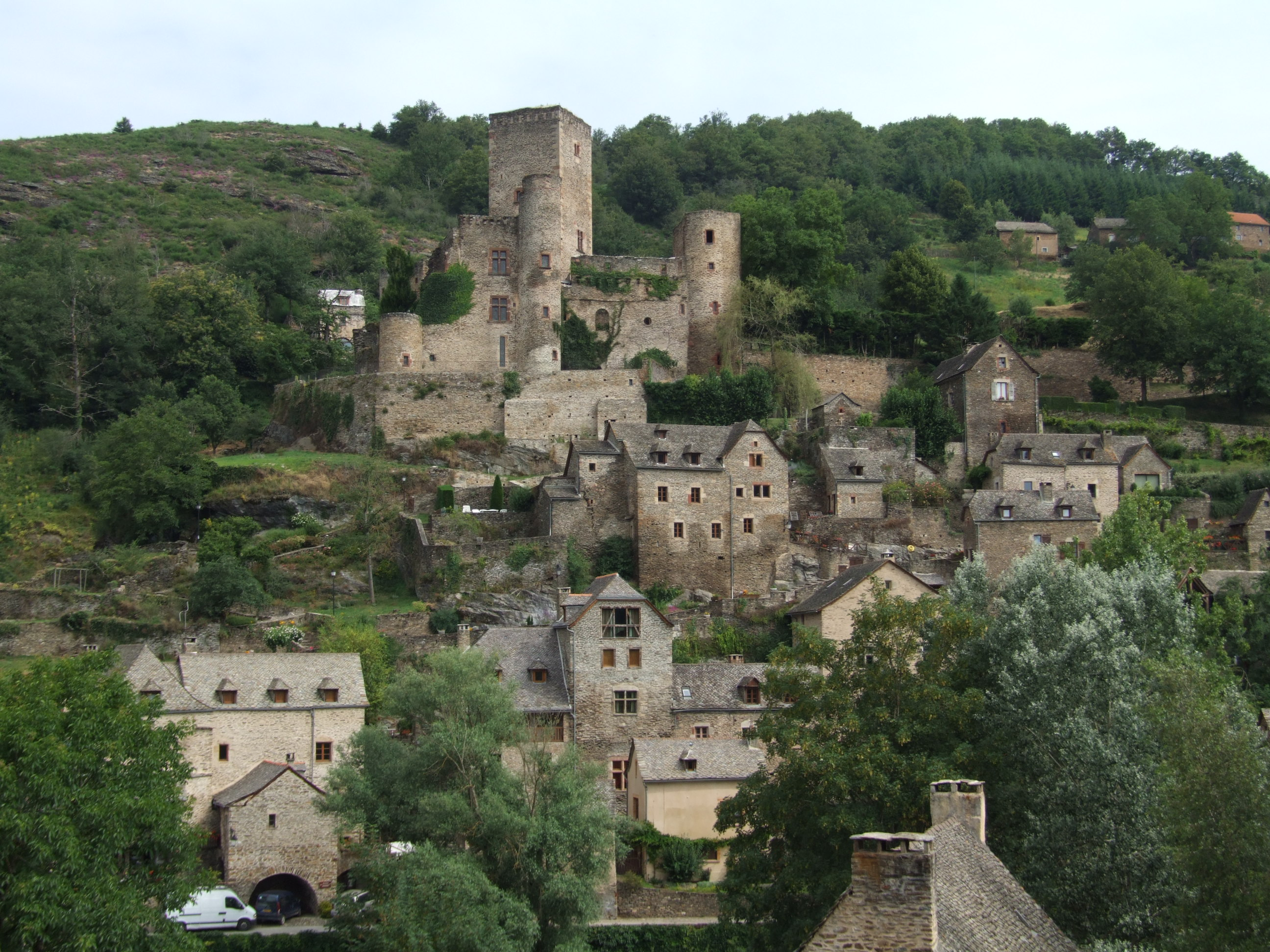 Belcastel, Aveyron, FRANCE